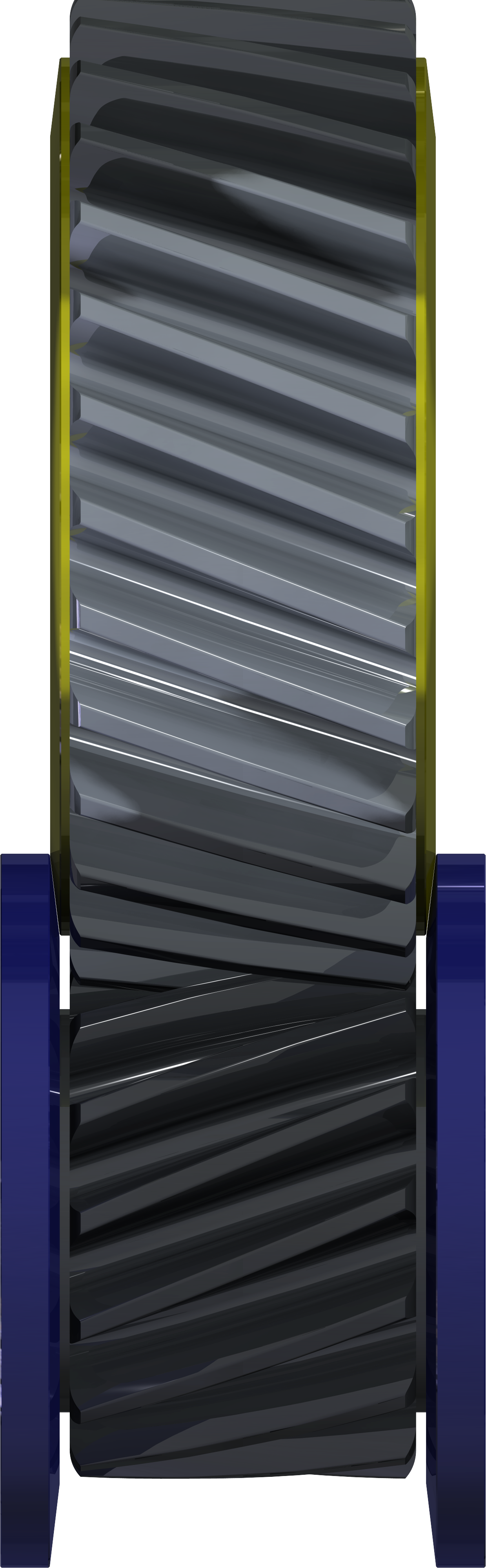 Helical gearing utilizing a thrust collar bearing. The thrust collars (blue) mounted next to the pinion (dark, small) engage the running surface (yellow) of the bull gear (light, big). The cone angle is exaggerated.